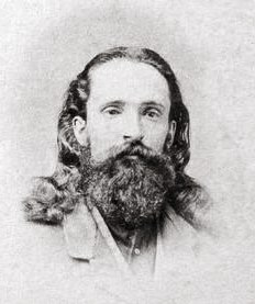 William F. Browne from CDV. On verso: Wm. Frank Browne. PHOTOGRAPHER Kilpatrick's Division. Headquarters 5th Mich. Cav.